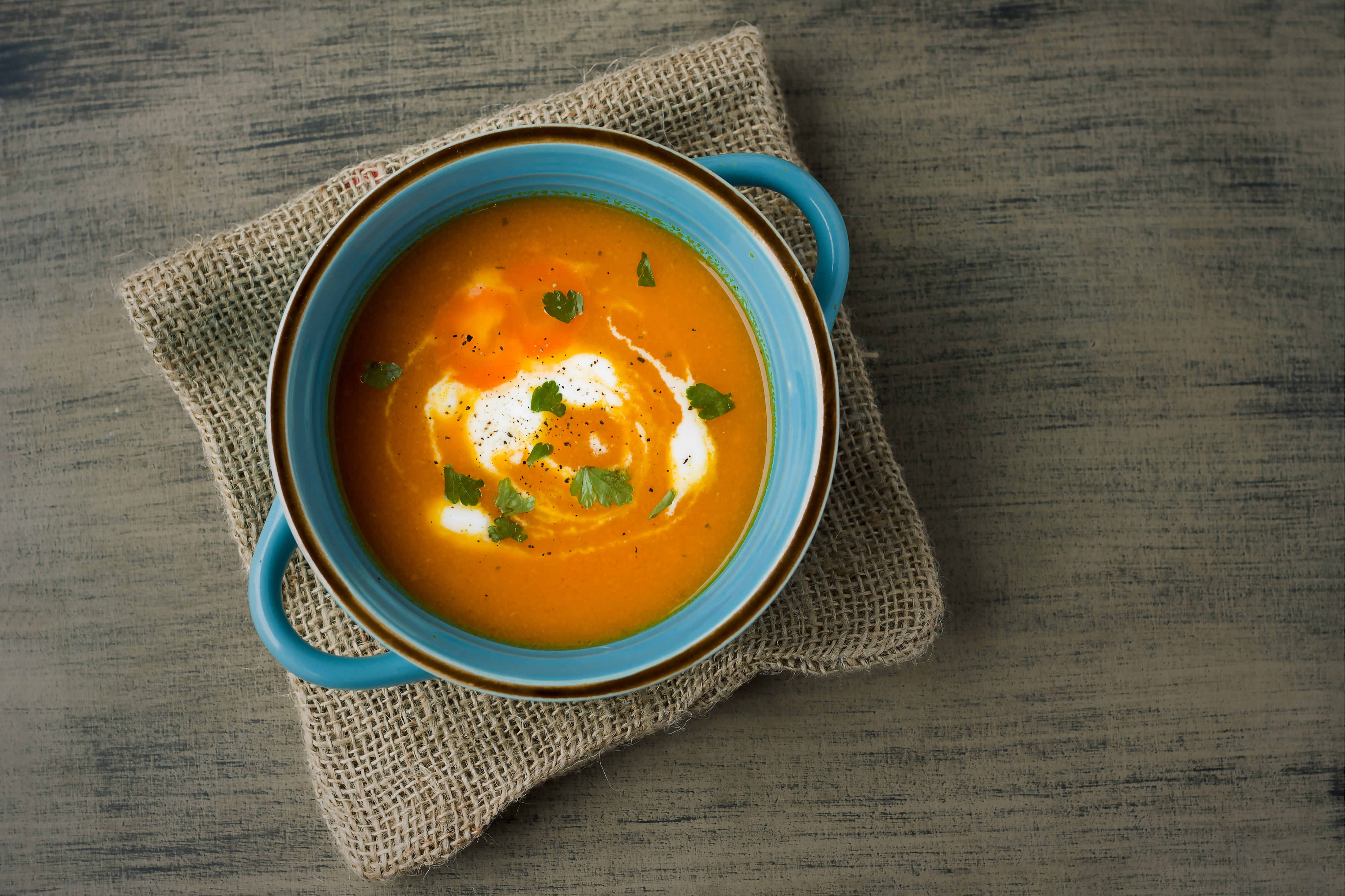 Carrot soup with ginger, lemon and sour cream.